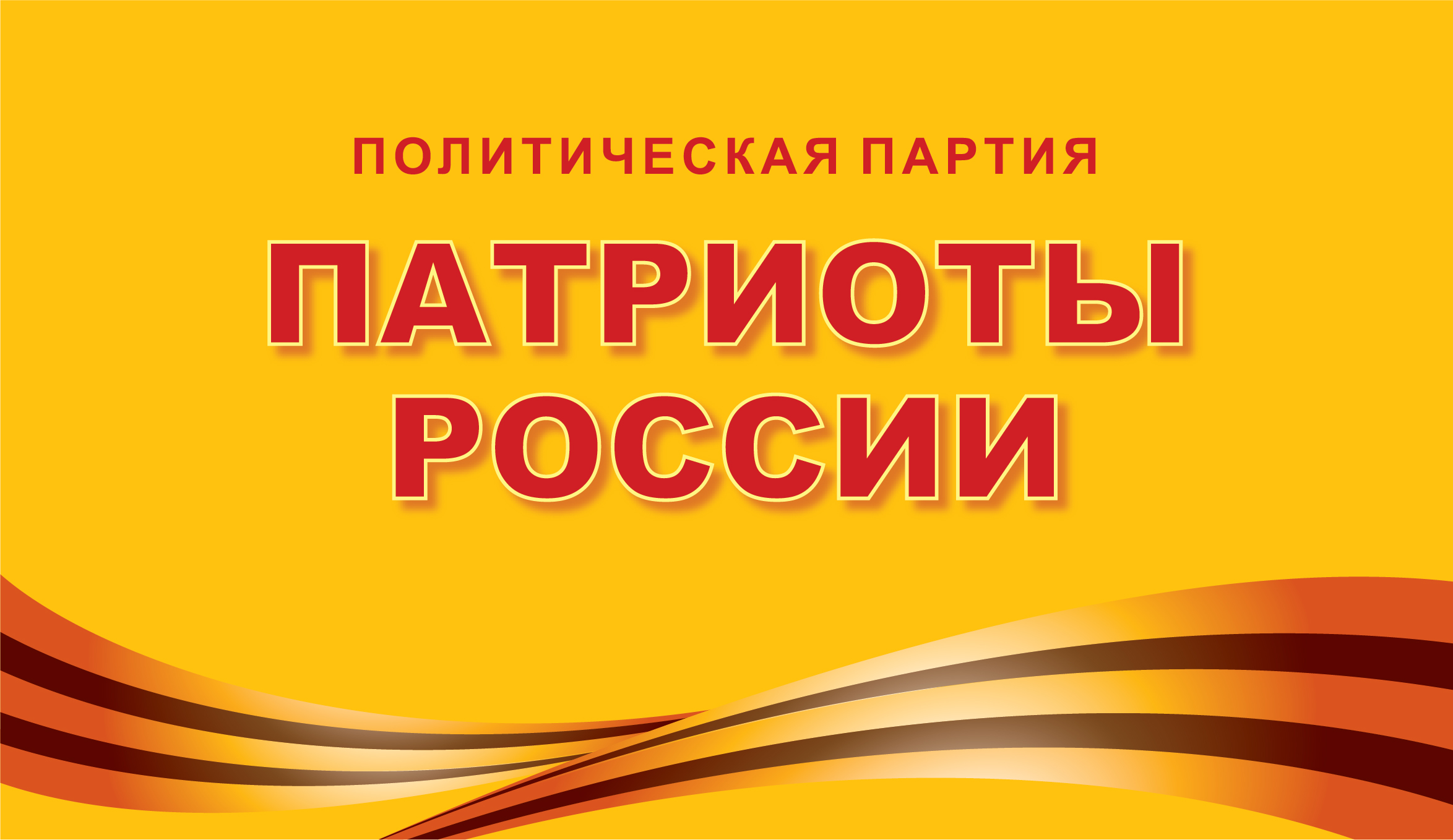 Flag The Party Of Patriots Of Russia. The ideology of Democratic socialism, Collectivism